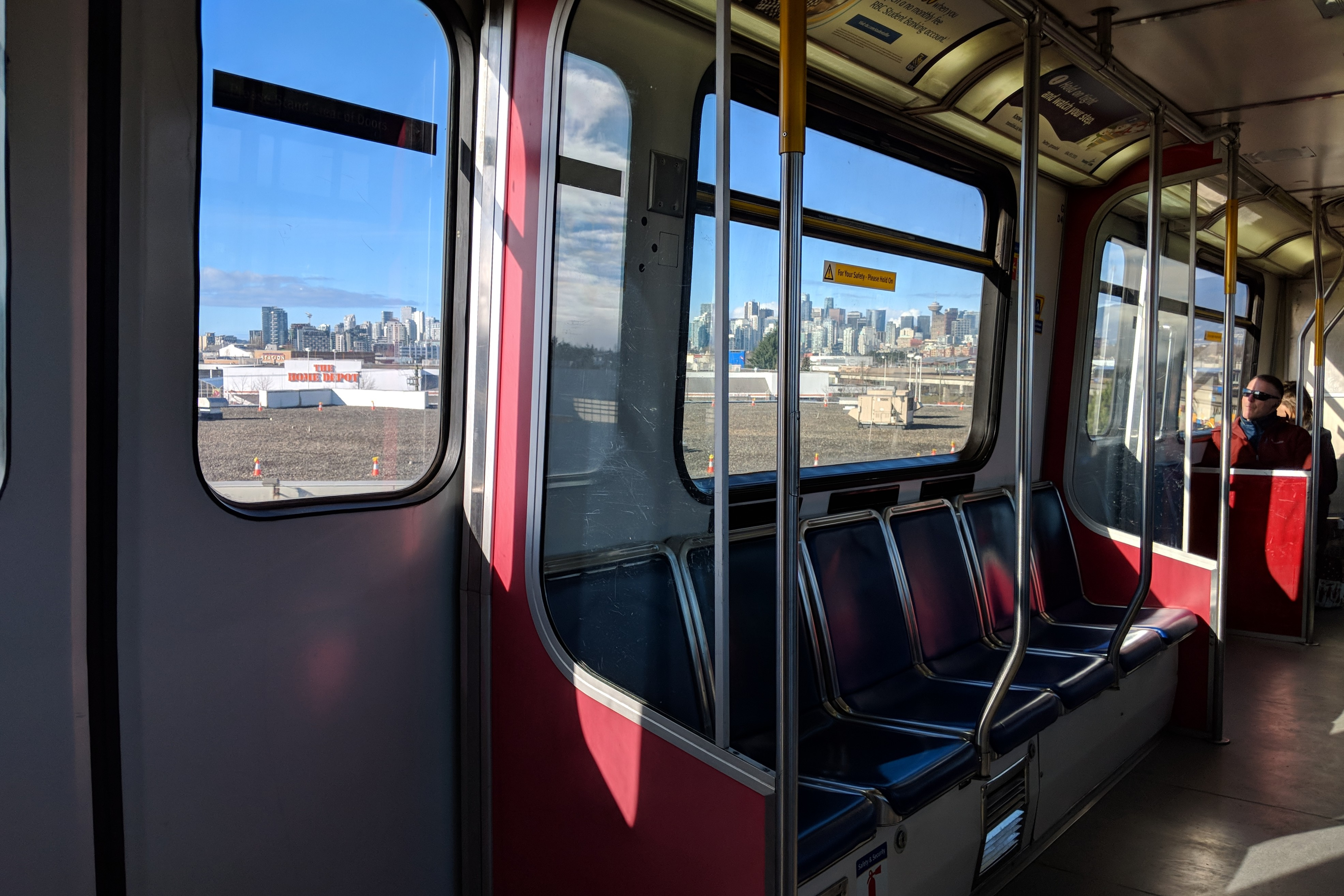 A panoramic view of Vancouver viewed from an Expo Line train.